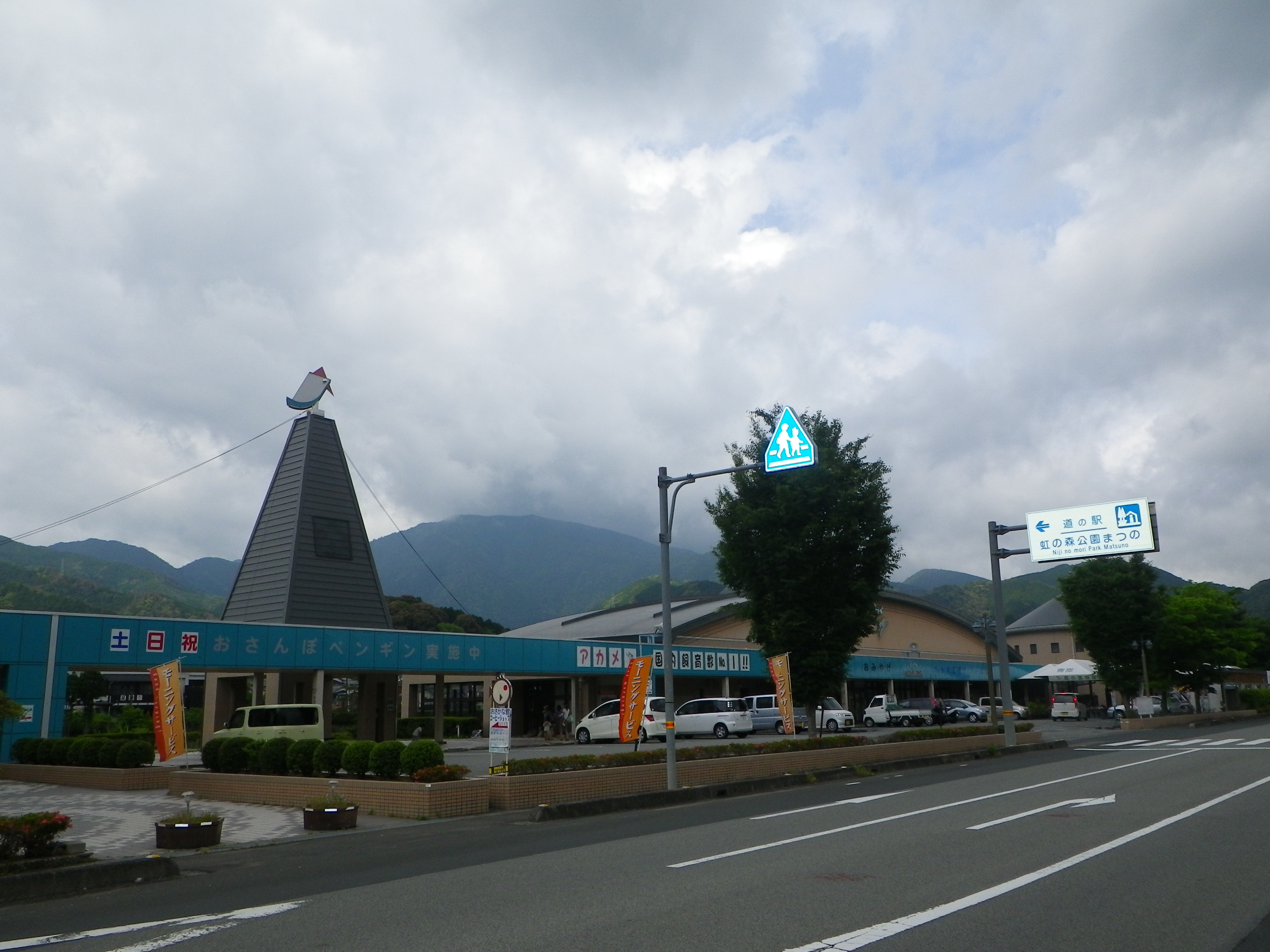 Roadside Station Nijino mori park Matsuno